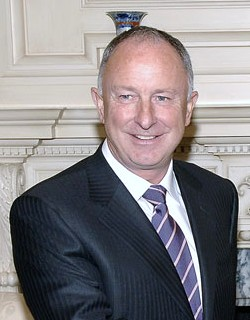 Dermot Ahern, TD, Minister for Justice of Ireland